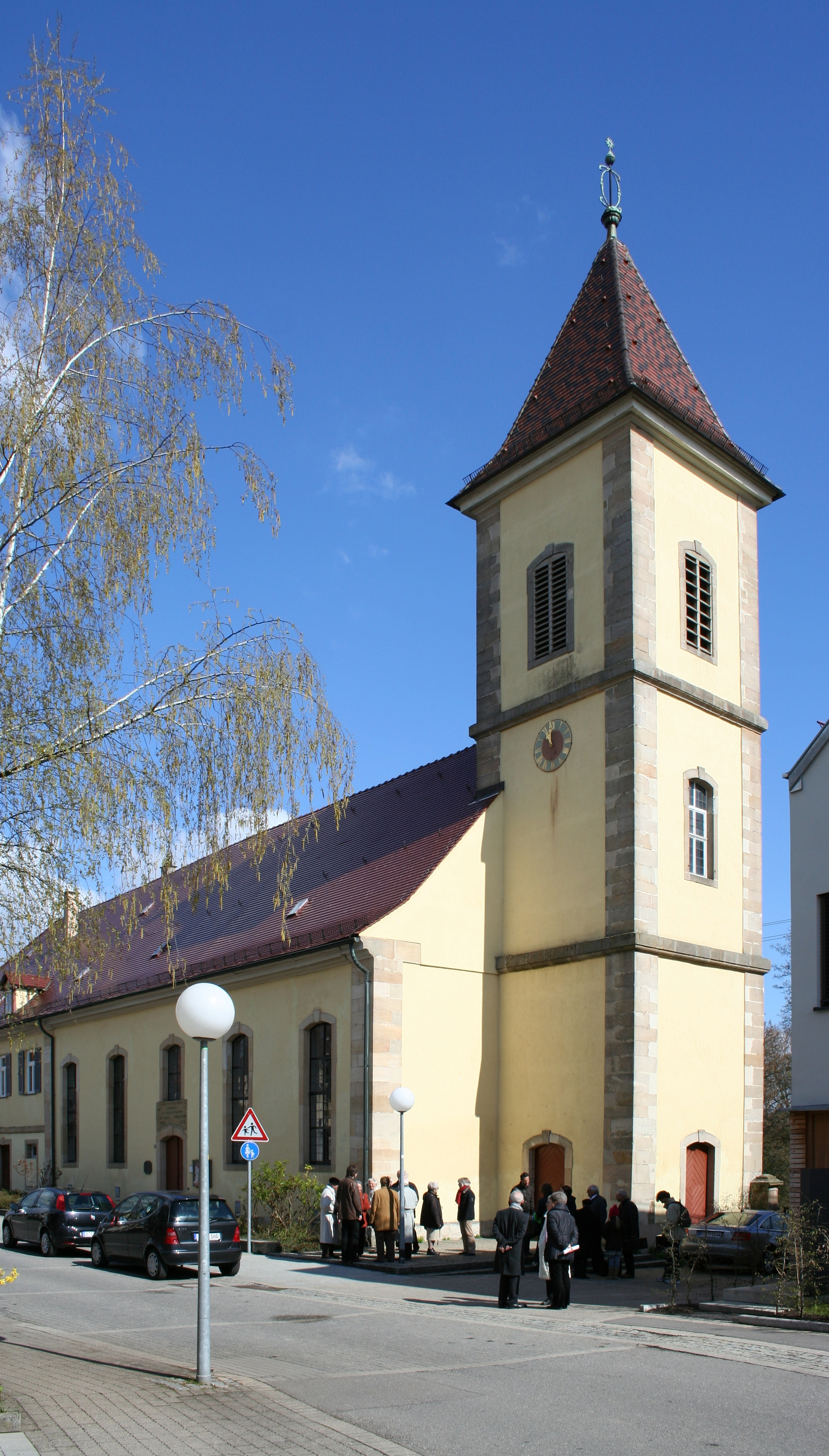 Franziska church (Protestant parish church) in Stuttgart-Birkach. If H builds from 1779 to 1780 from the court architect R. FOLLOWING. Fischer. Town district of Stuttgart-Birkach, Baden-Wurttemberg, Germany.